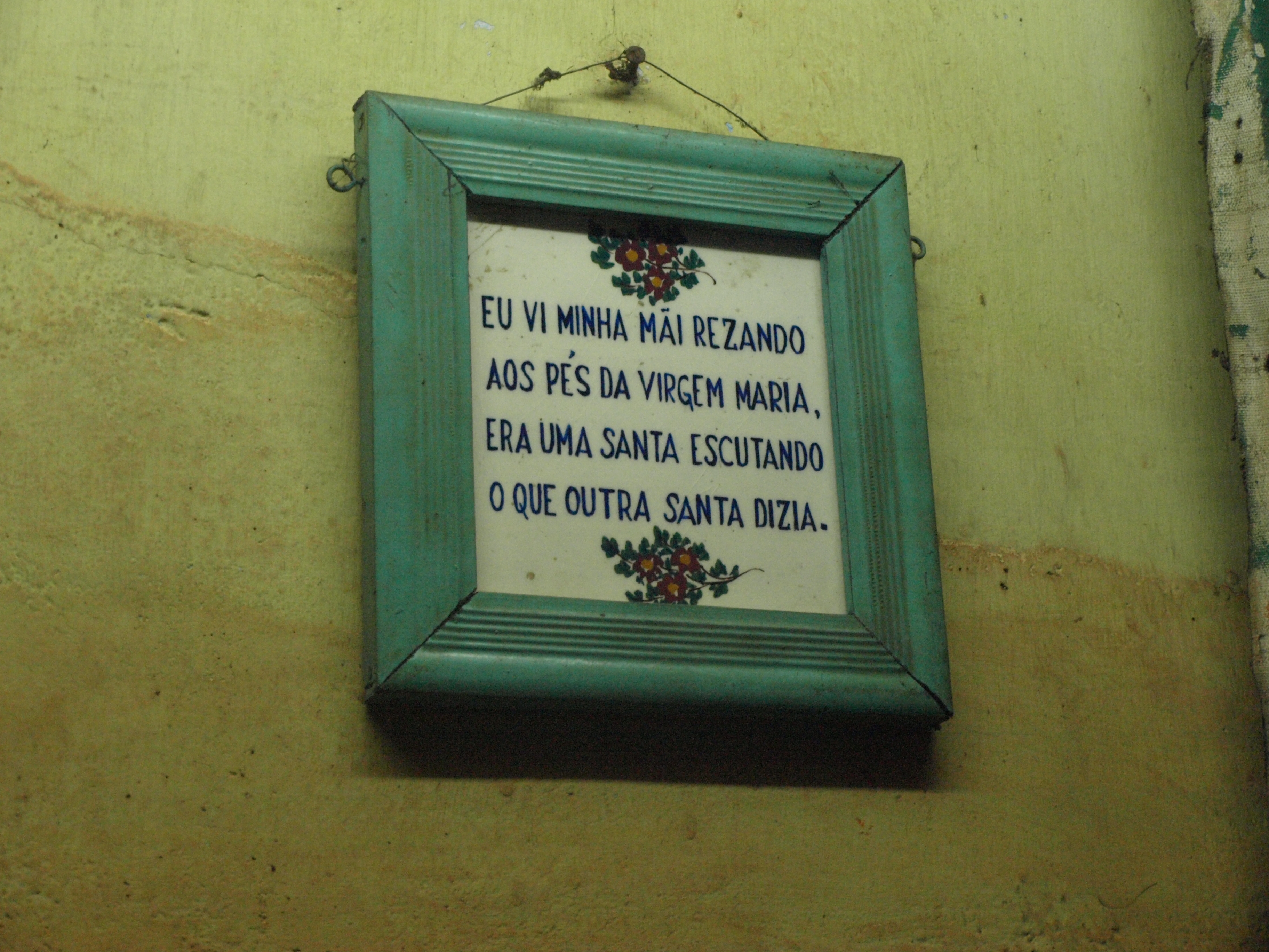 Photo by Frederick Noronha.